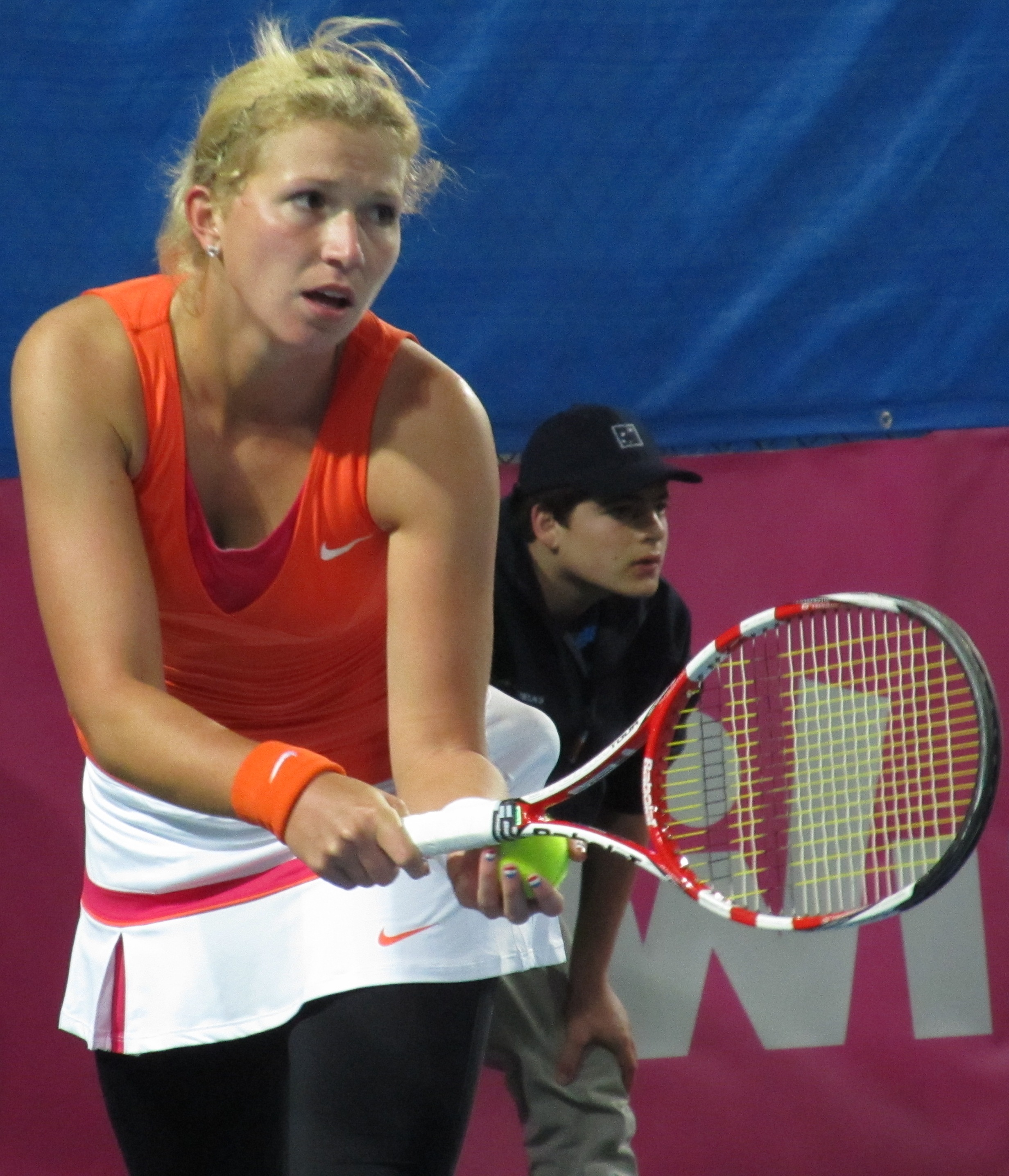 The tennis player Michaëlla Krajicek of the Netherlands during her match against Shahar Pe'er of Israel in the 1st day of Fed Cup Group I 2012 Europe/ Africa in Eilat, Israel